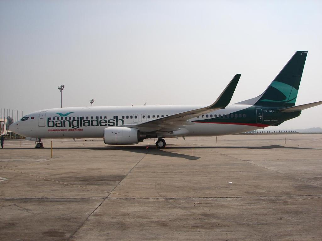 Biman's leased Boeing 737-800 at Zia International Airport (Side View).